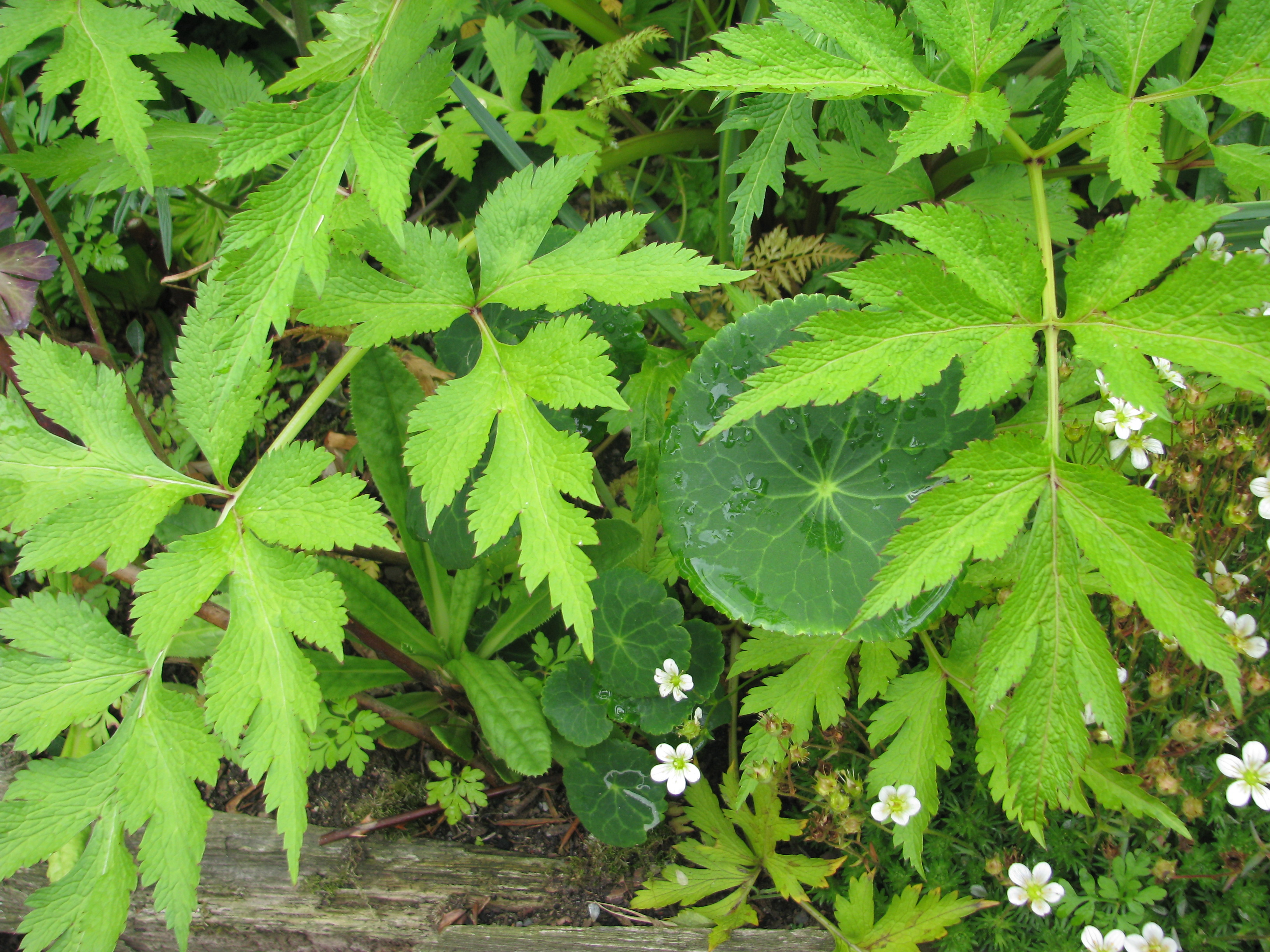 Just the leaves so far (the circular ones) but this South African species has come through the last winter in a damp bed perfectly well. One thing I didn't know before is that this species might be a bit of a runner underground, which might be why you don't see it that much in cultivation. The flowers when they come should be good solid yellow buttercups. The paler green foliage over the top is Pleurospermum benthamii.